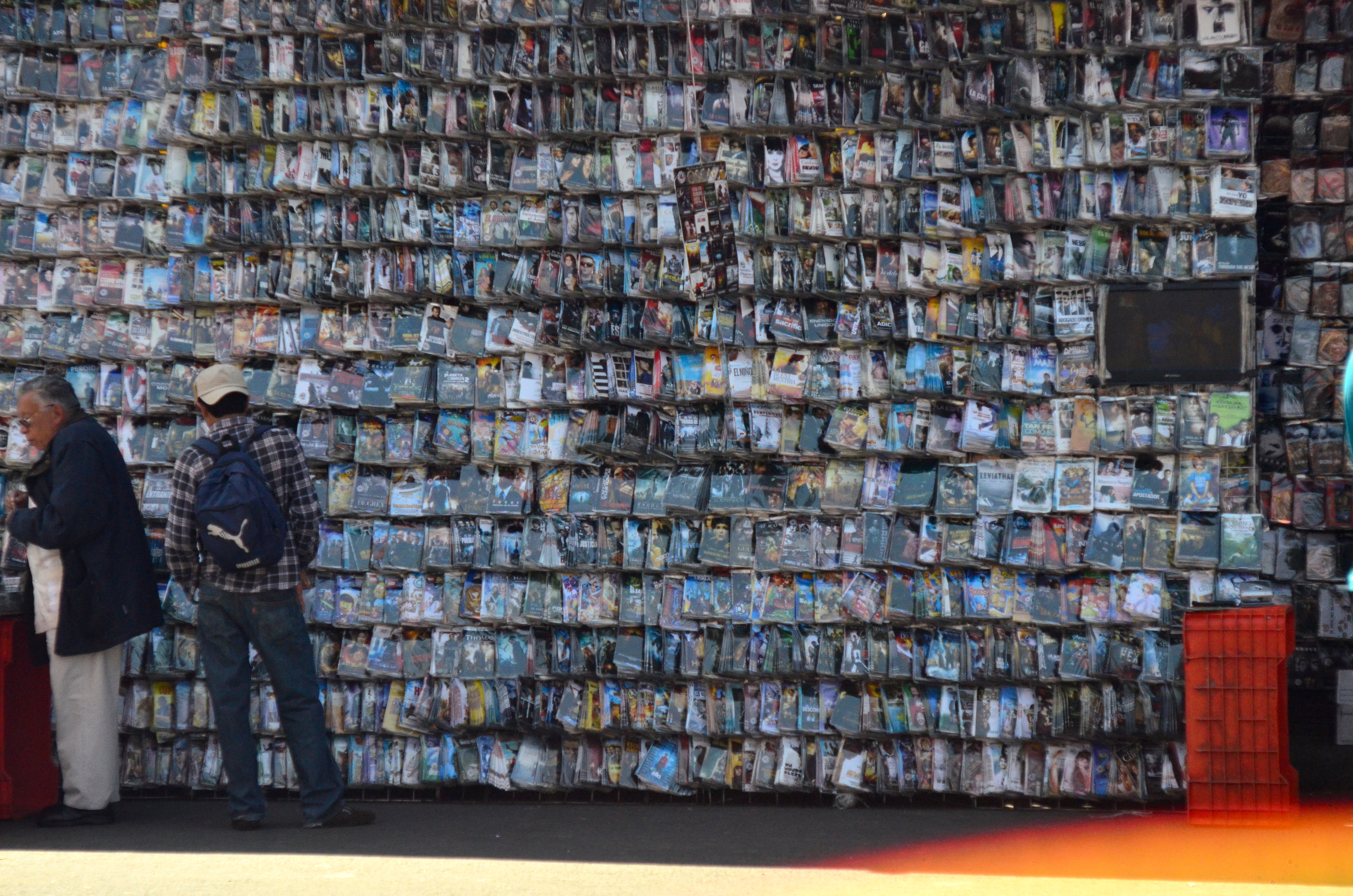 DVDs and Blu-Ray Discs can be found in almost every corner of barrio de Tepito. The trade is based on the wholesale, while someone buys more product the price per unit falls.